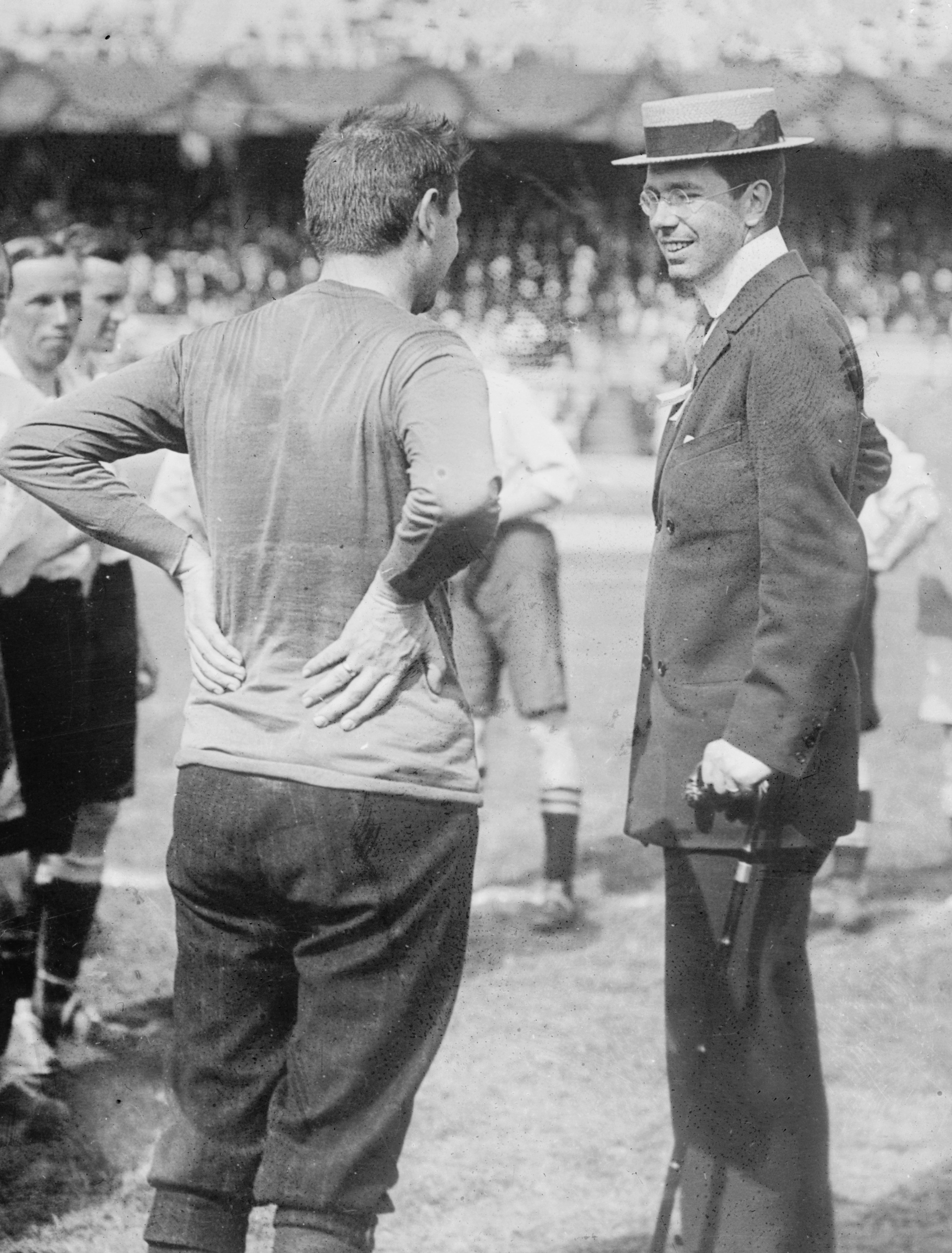 Gustav VI Adolf of Sweden, with some English football players.